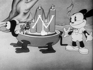 Screenshot from Making Good, a 1932 Walter Lantz cartoon.